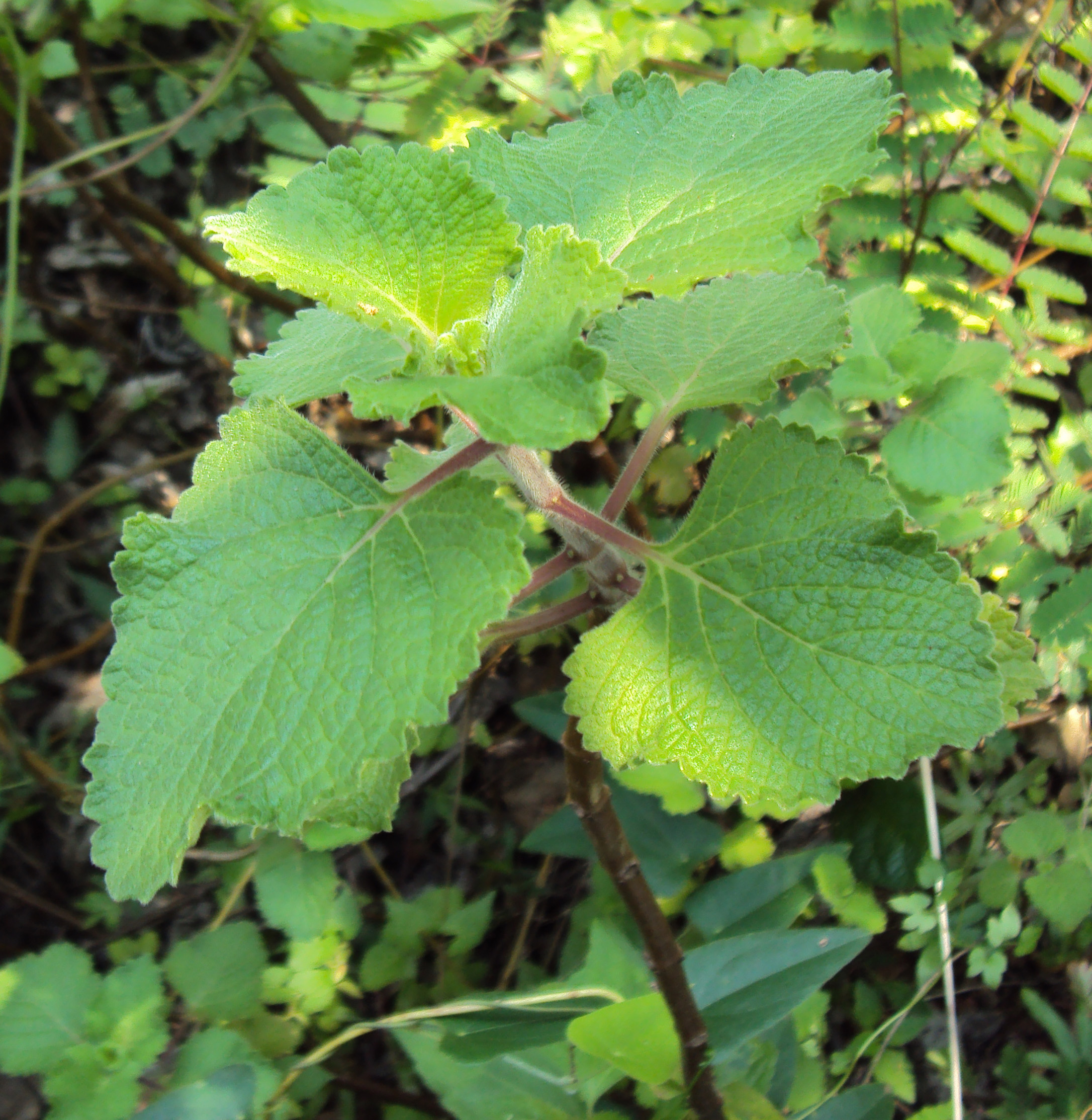 Plectranthus hadiensis